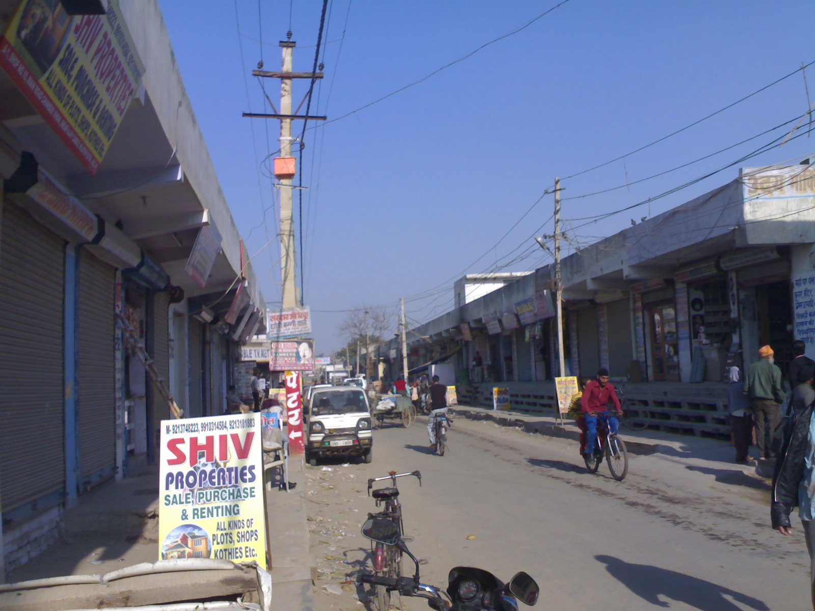 The photograph is creation by self.